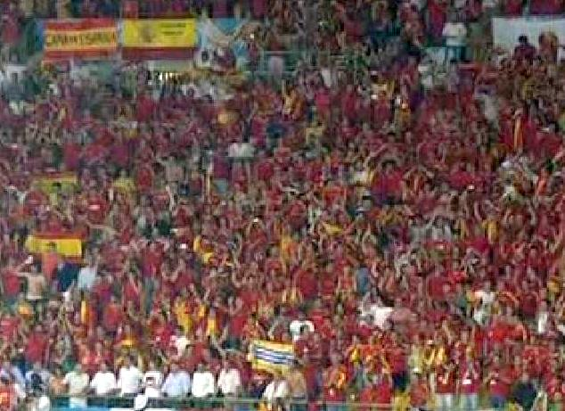 Isla Cristina´s flag at the Ernst Happel Stadion (Viena), final of the 2008 UEFA European Football Championship